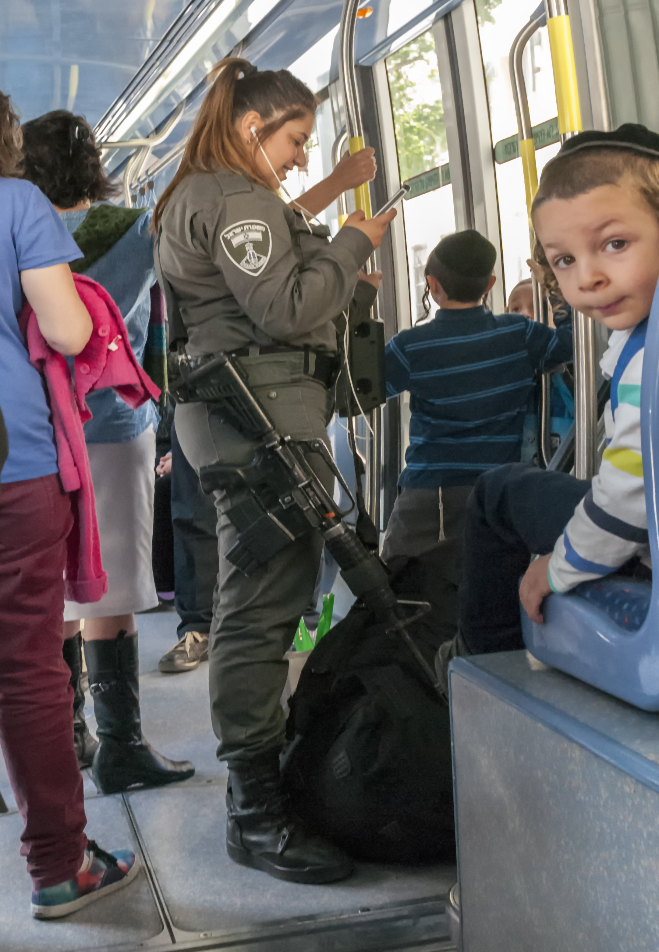 Scene in Jerusalem tram during rush hour